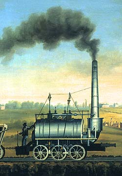 Contemporary painting of Steam Elephant